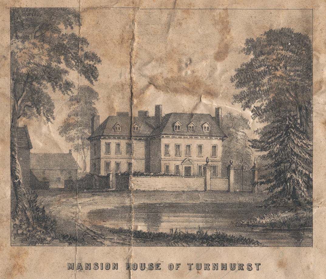 Engraving showing Turnhurst Hall, Wolstanton, Staffordshire, England.